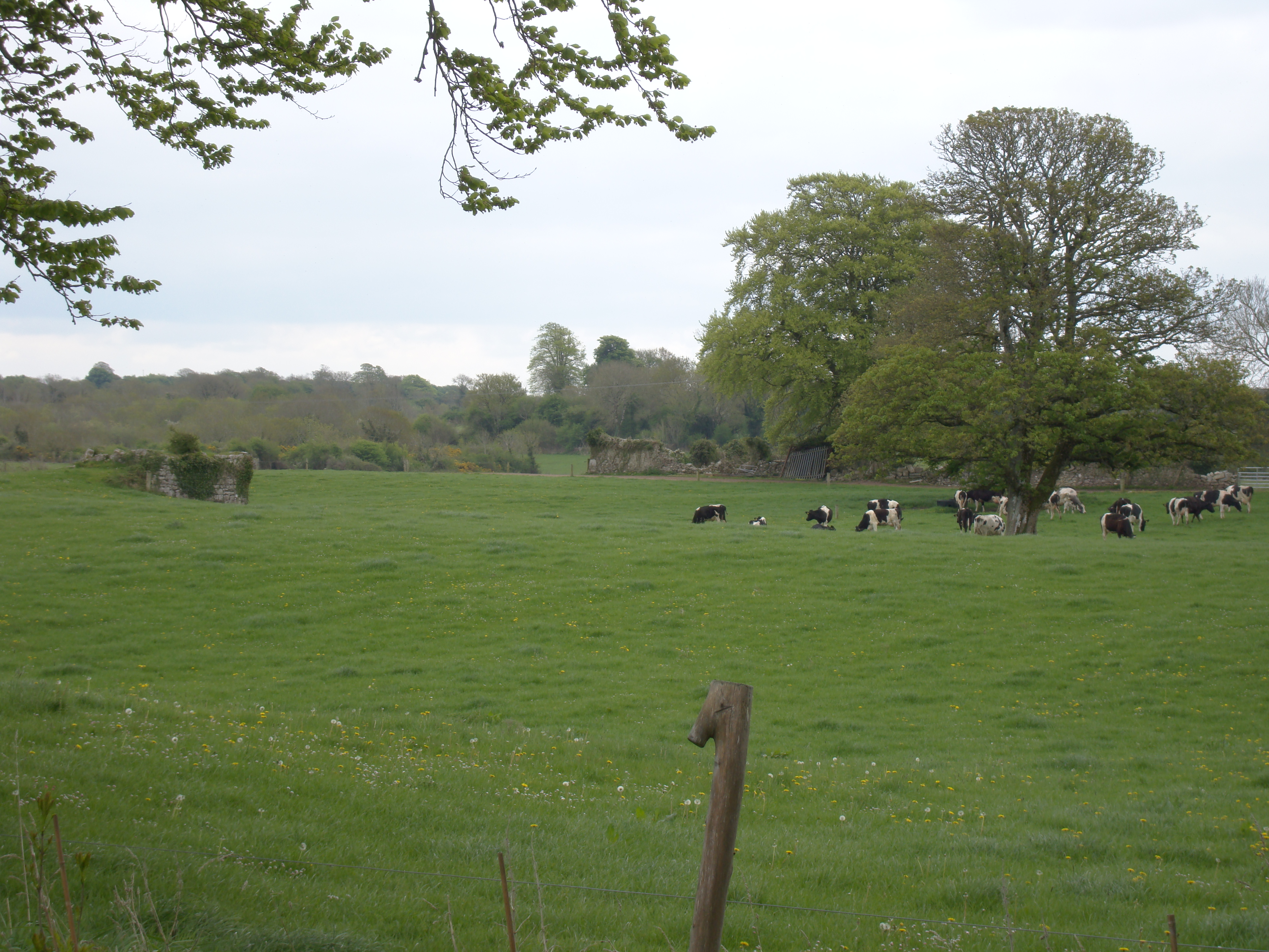 Photograph of the remains of St Katherine's Abbey, Monisternagalliaghduff, Co. Limerick, Ireland